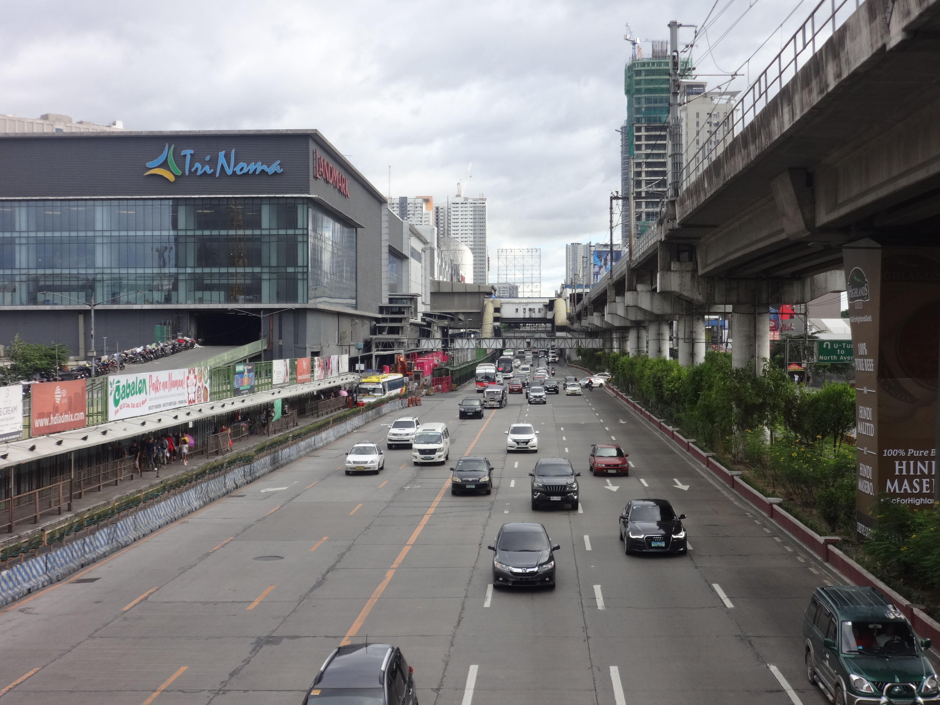 View of EDSA in Quezon City, with the Trinoma to the left